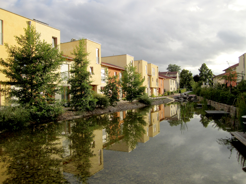 View of lake in residential area Arkadien Winnenden, Germany.